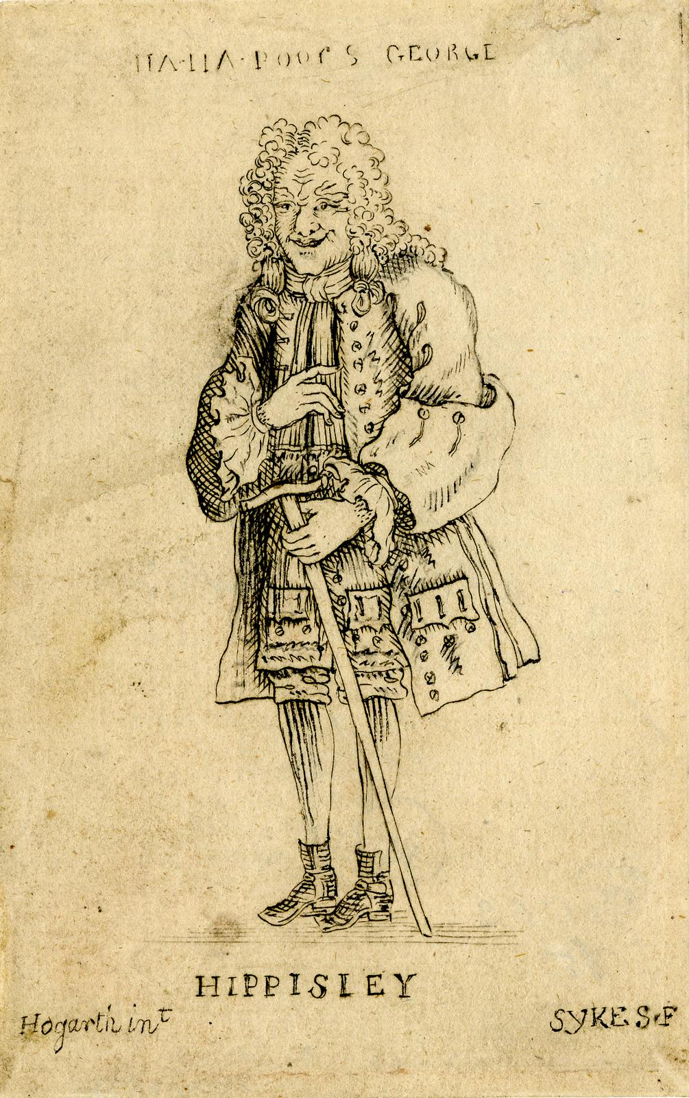 Copy of portrait of the actor John Hippisley, in character as Sir Francis Gripe, in Centlivre's 'The Busy Body'; whole length, standing, turned to the left, looking at viewer, holding cane, pointing to the right; after Hogarth. Etching